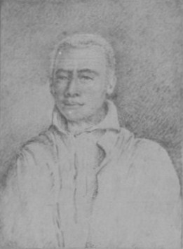 Kalanimoku (c. 1768–1827) was a military and civil leader of the Kingdom of Hawaii. He served as battle commander during the conquest, and then as a role similar to Prime Minister. He took the name "Billy Pitt" after the Prime Minister of Great Britan at the time.